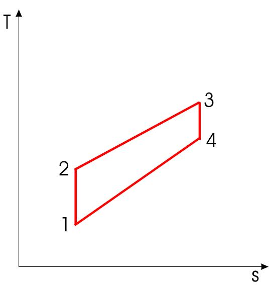 Diesel cycle in T-s (temperature-entropy)